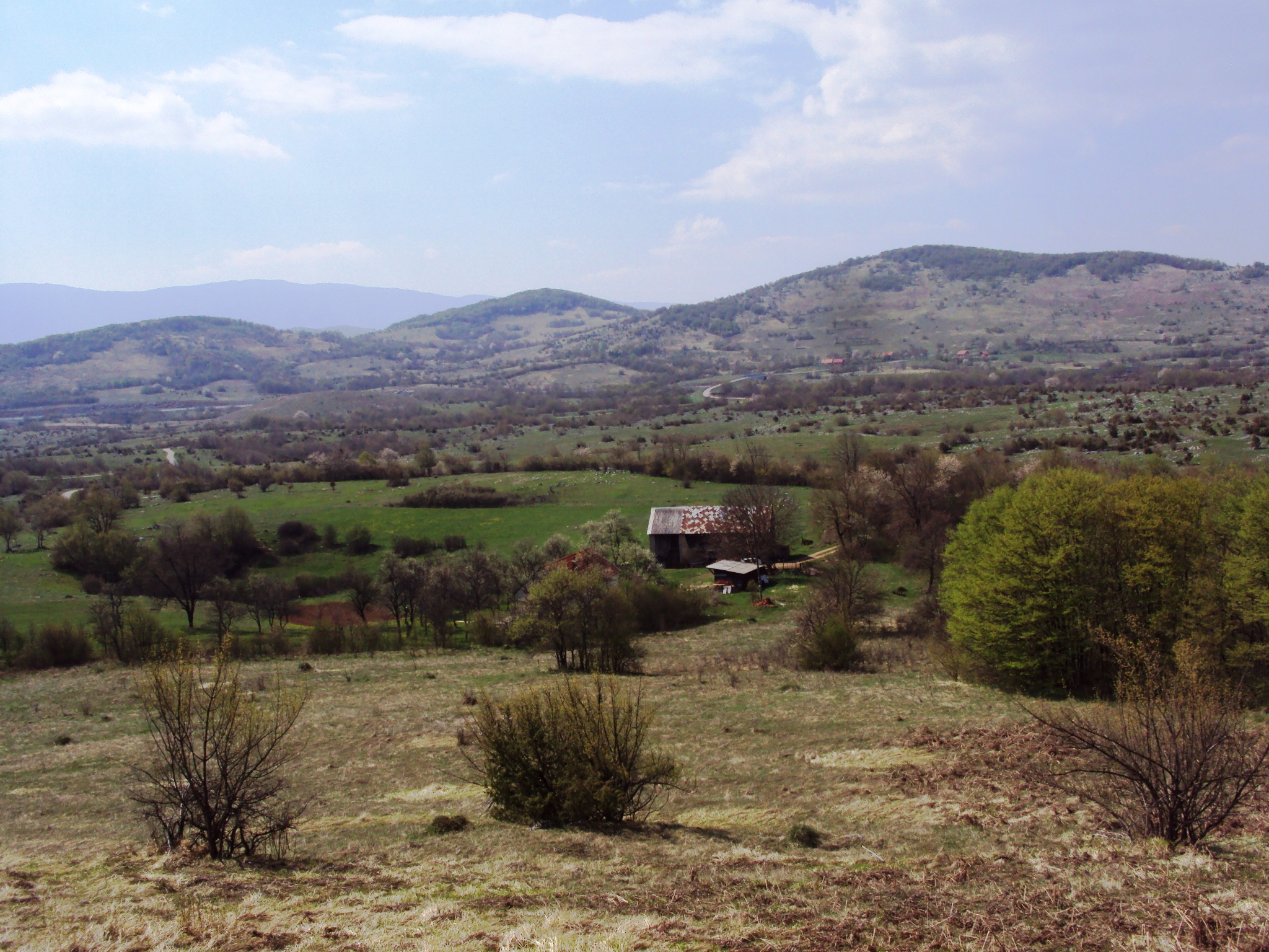 The village of Brloška Dubrava near Otočac, Region of Lika, Croatia